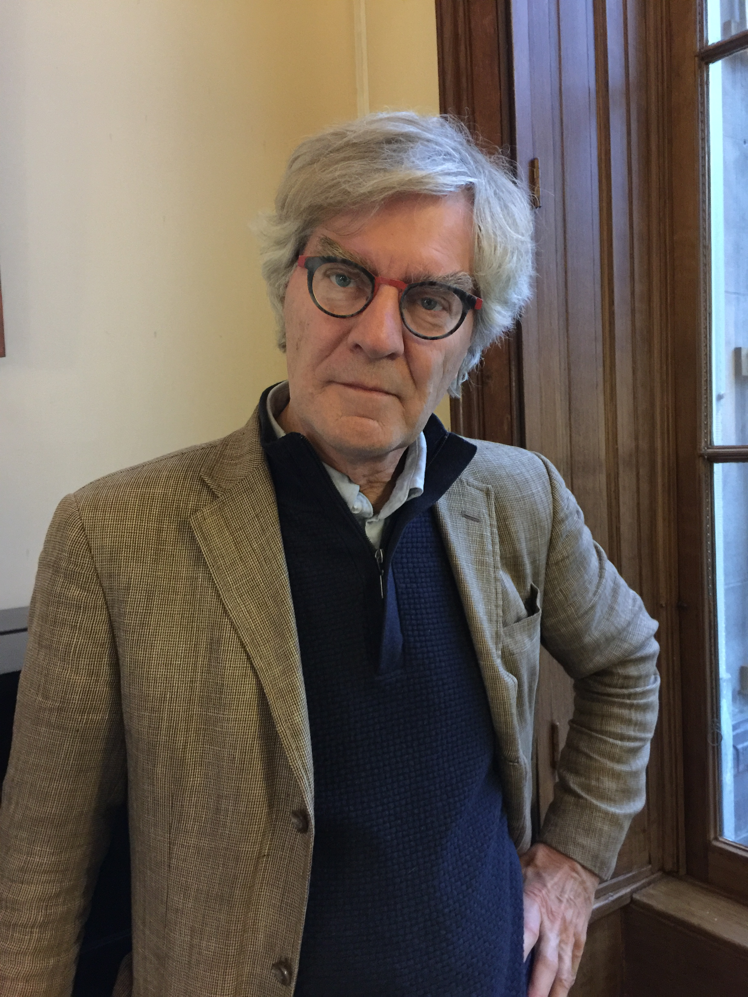 Dutch publisher Jan Geurt Gaarlandt in 2019